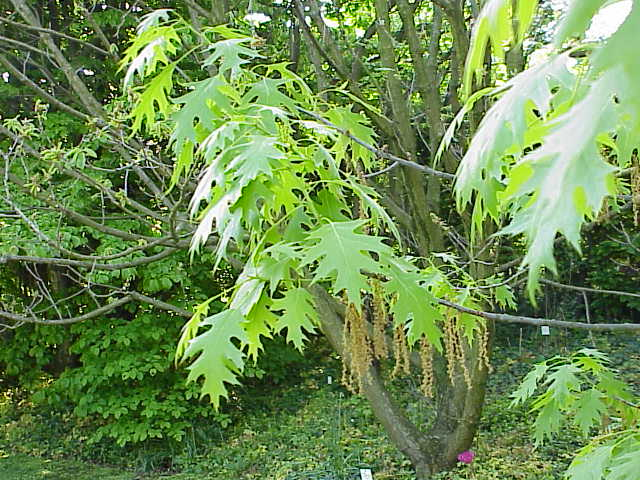 Species: Quercus coccinea Family: Fagaceae Image No. 3